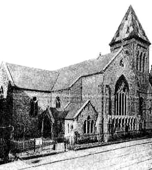 Photograph showing St. Peter's Church, Aungier St., Dublin in 1880.